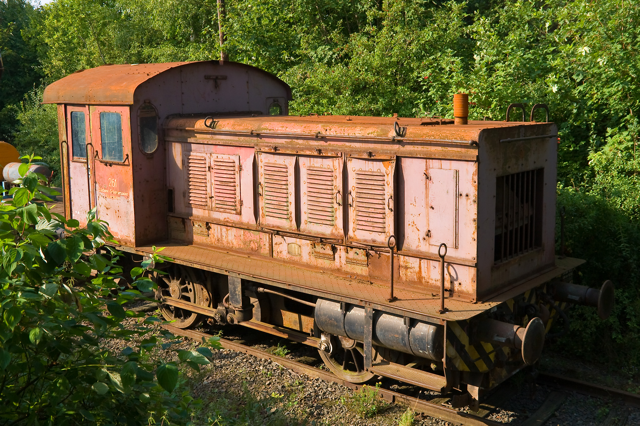 V261 of the Luechow-Schmarsauer Eisenbahn (LSE), now owned by the Arbeitsgemeinschaft historische Eisenbahn e.V. (AHE) Almstedt-Segeste, Lower Saxony, Germany. Diesel locomotive of the Wehrmacht class WR 200 B 14.